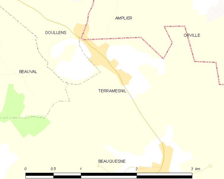 Map of French municipality Terramesnil